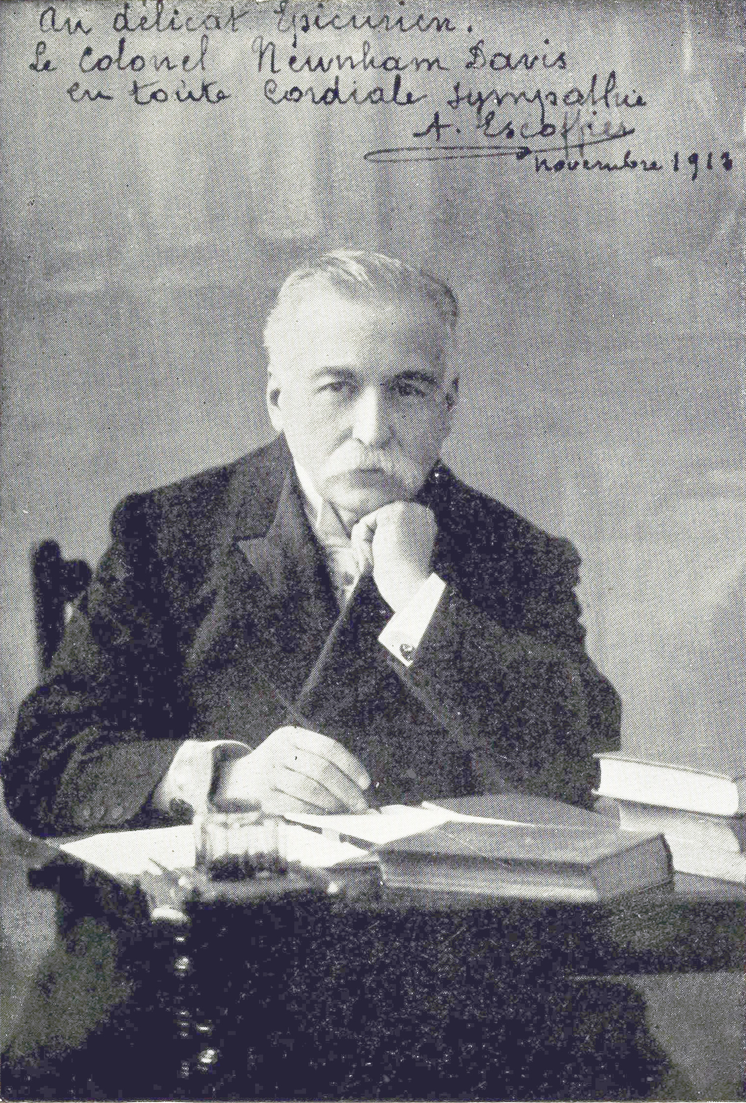 Photograph of Auguste Escoffier